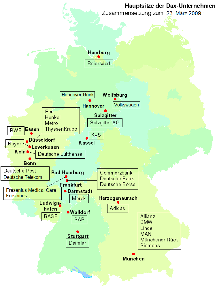 Map showing the headquarters of the 30 companies that make up the Deutscher Aktienindex (Dax).